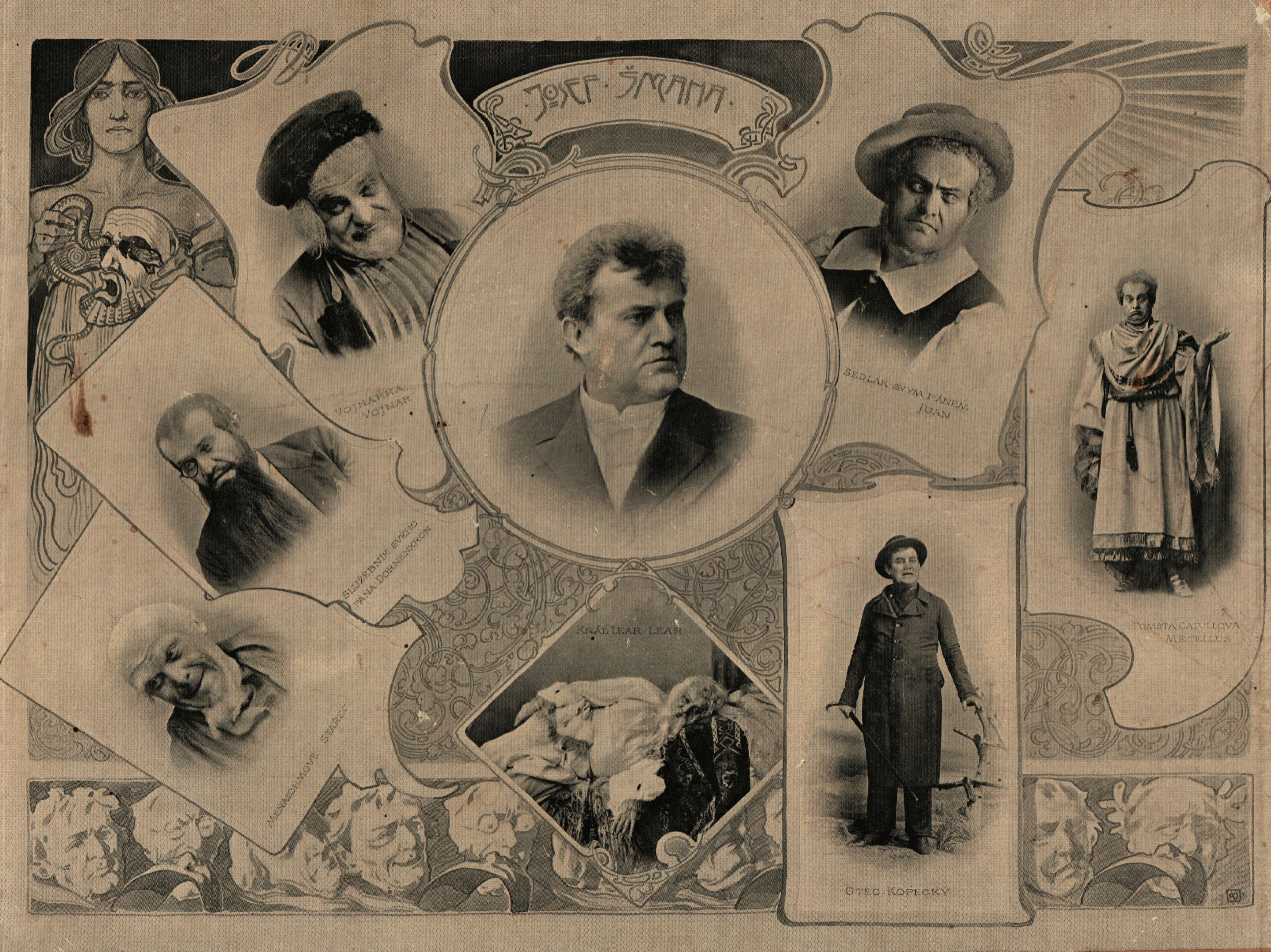 Josef Šmaha (1848-1915)